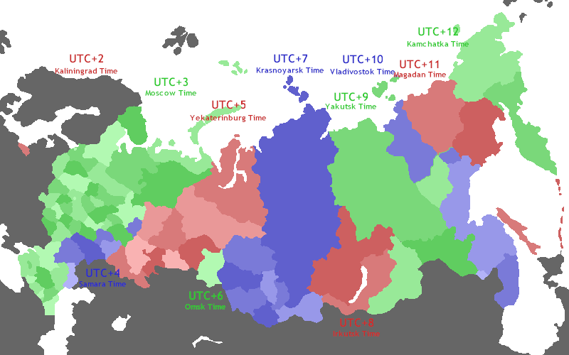 A map showing the timezones in Russia relative to its federal subjects.